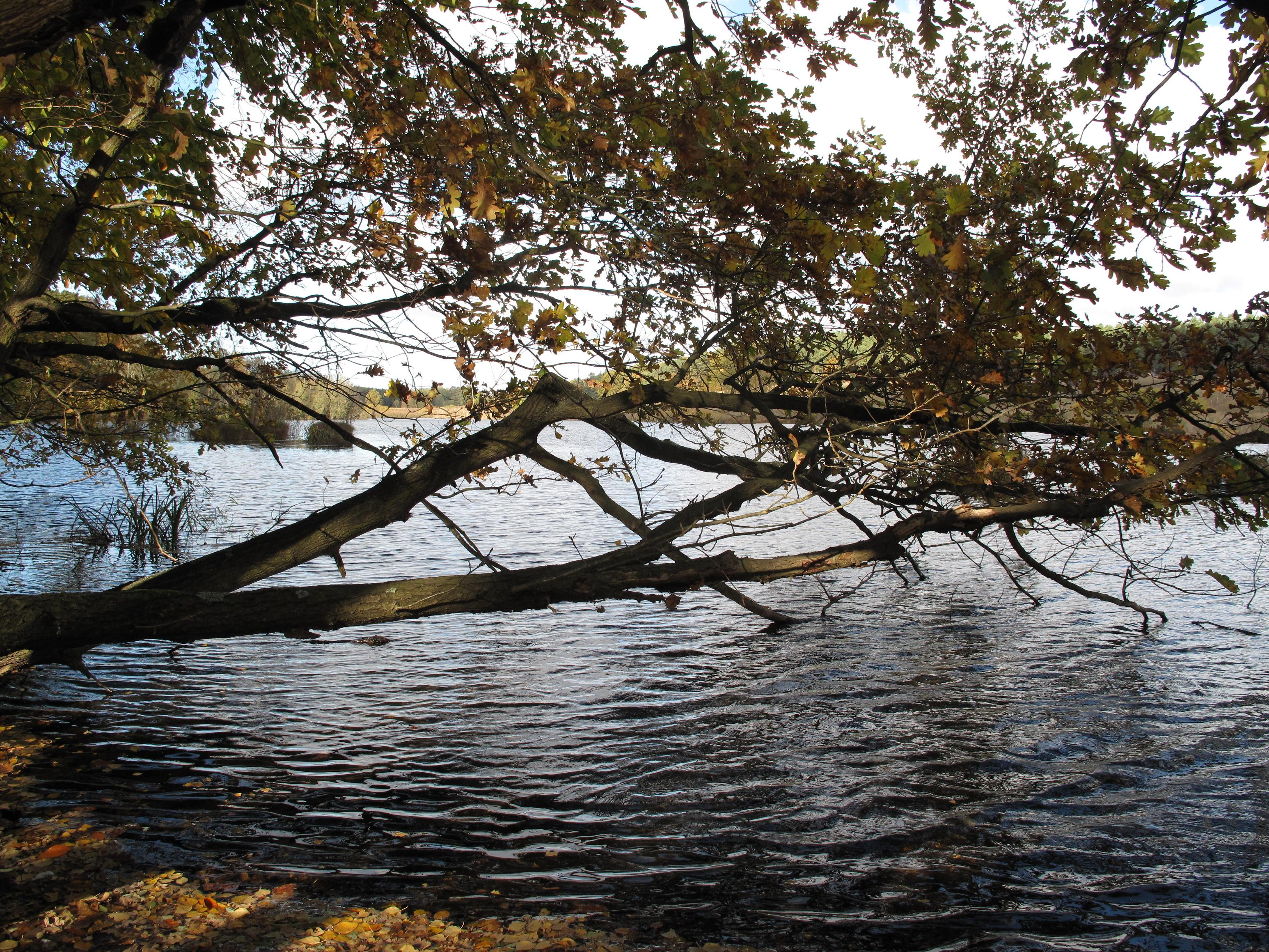 The Poschfenn is a lake (fen) in Stücken and Fresdorf, parts of the municipality Michendorf in the district Potsdam-Mittelmark, state Brandenburg, Germany. The lake covers 0,06 km² and is situated in the Nuthe-Nieplitz Nature Park.